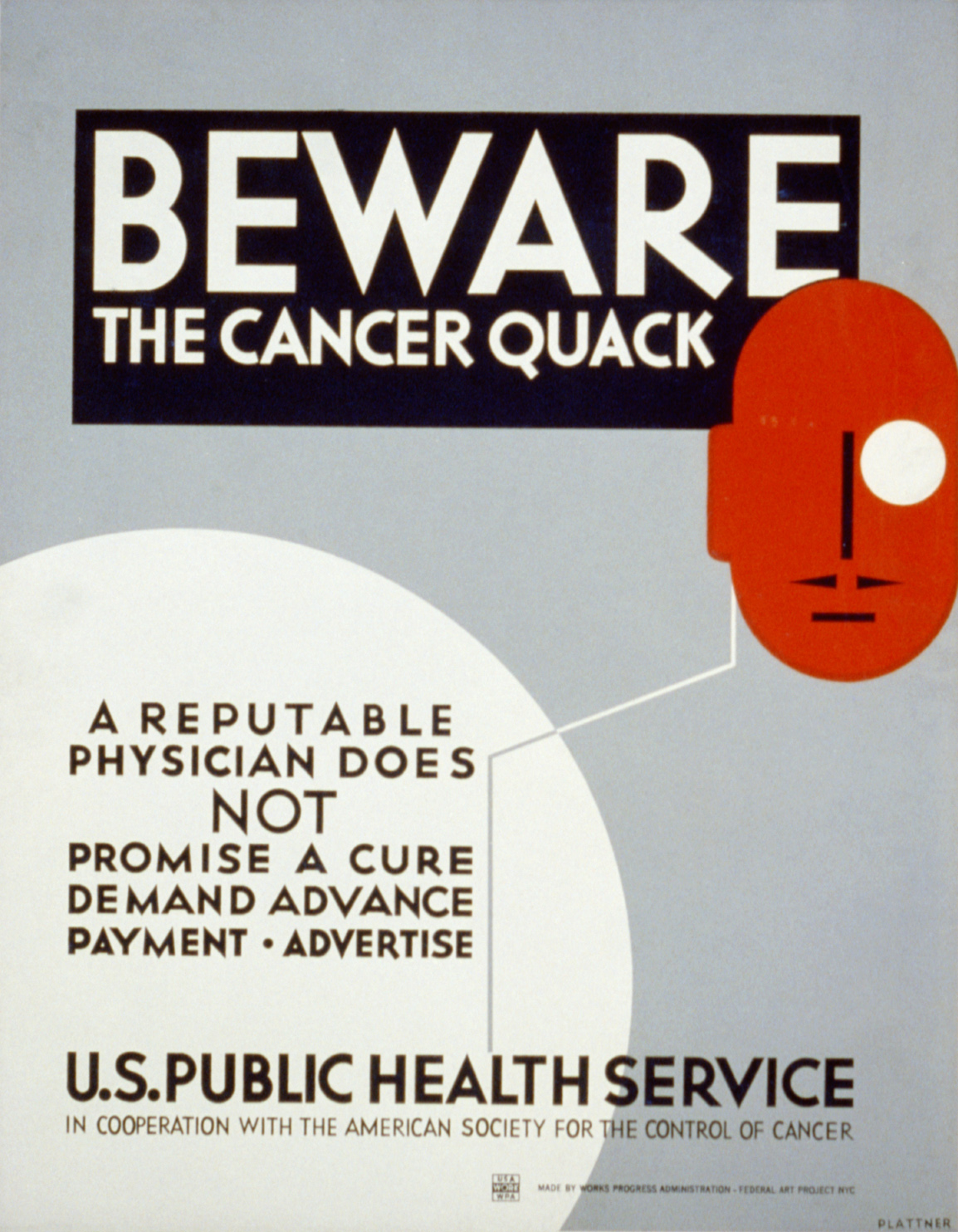 WPA poster warning cancer patients to be wary of persons claiming to be physicians and promising to cure cancer.